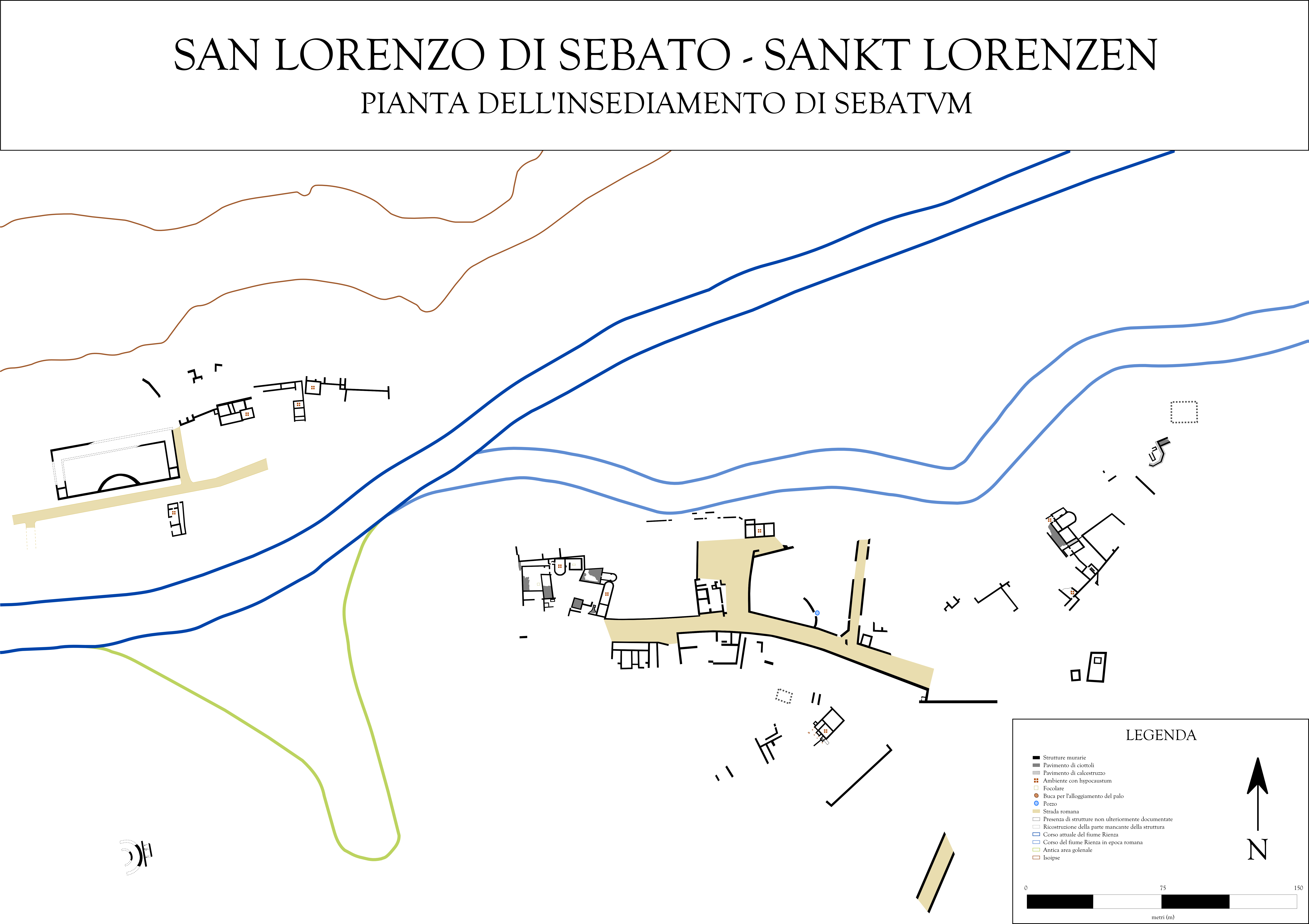 Map of the roman-age structures found in Sebatum (San Lorenzo di Sebato/Sankt Lorenzen, South Tirol, Italy)